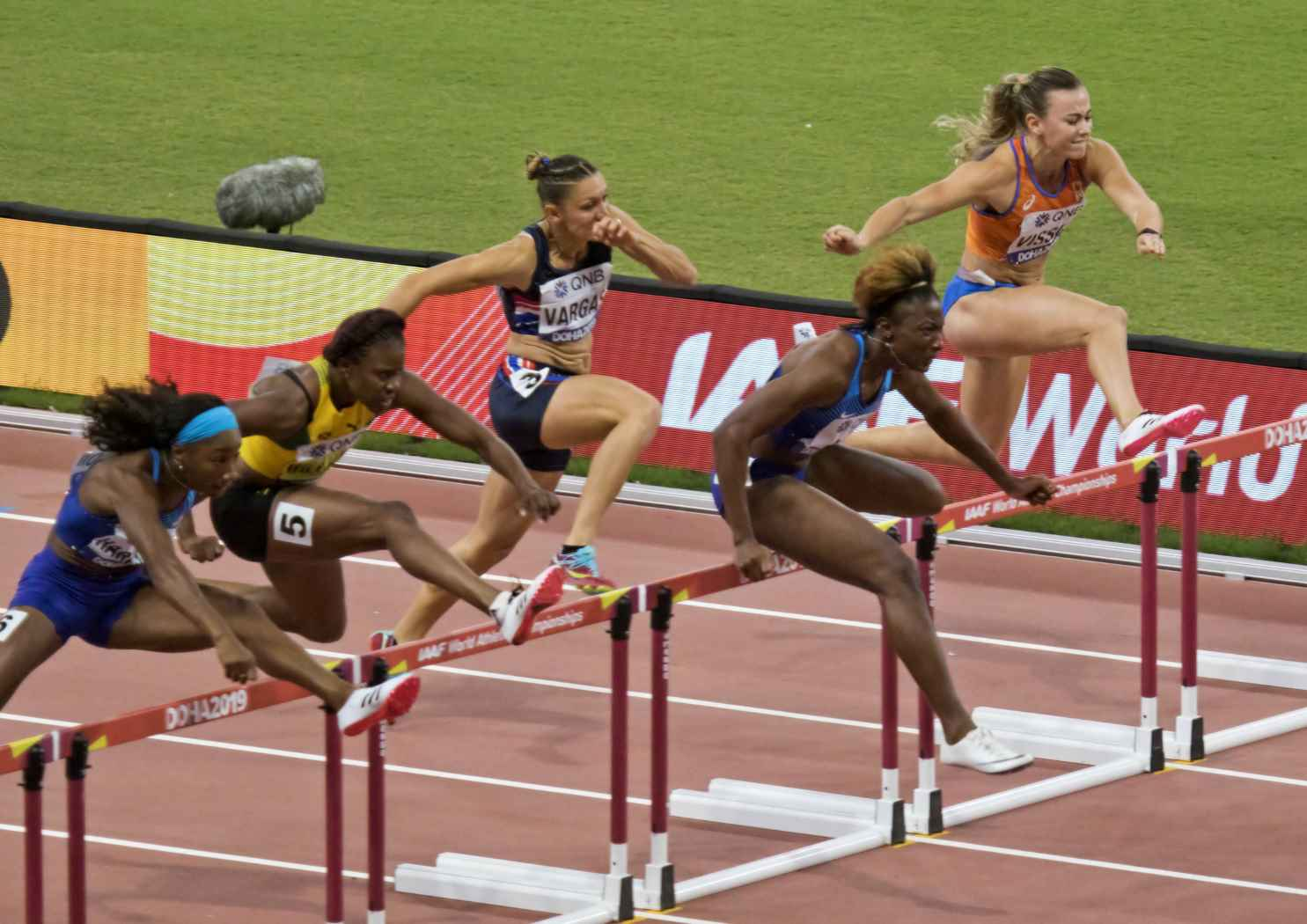 DOH90110 100mH women final ali visser harrison williams